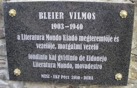 Plaque of Vilmos Bleier in Pécs, Hungary